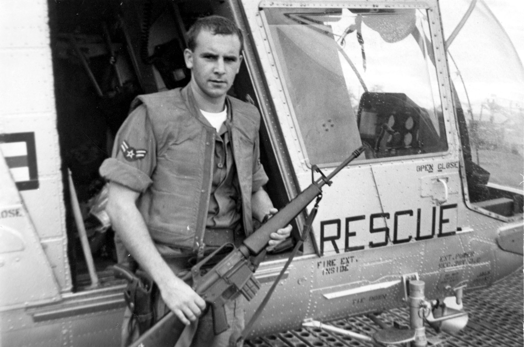 A1C William Pitsenbarger with an M-16 outside the HH-43.